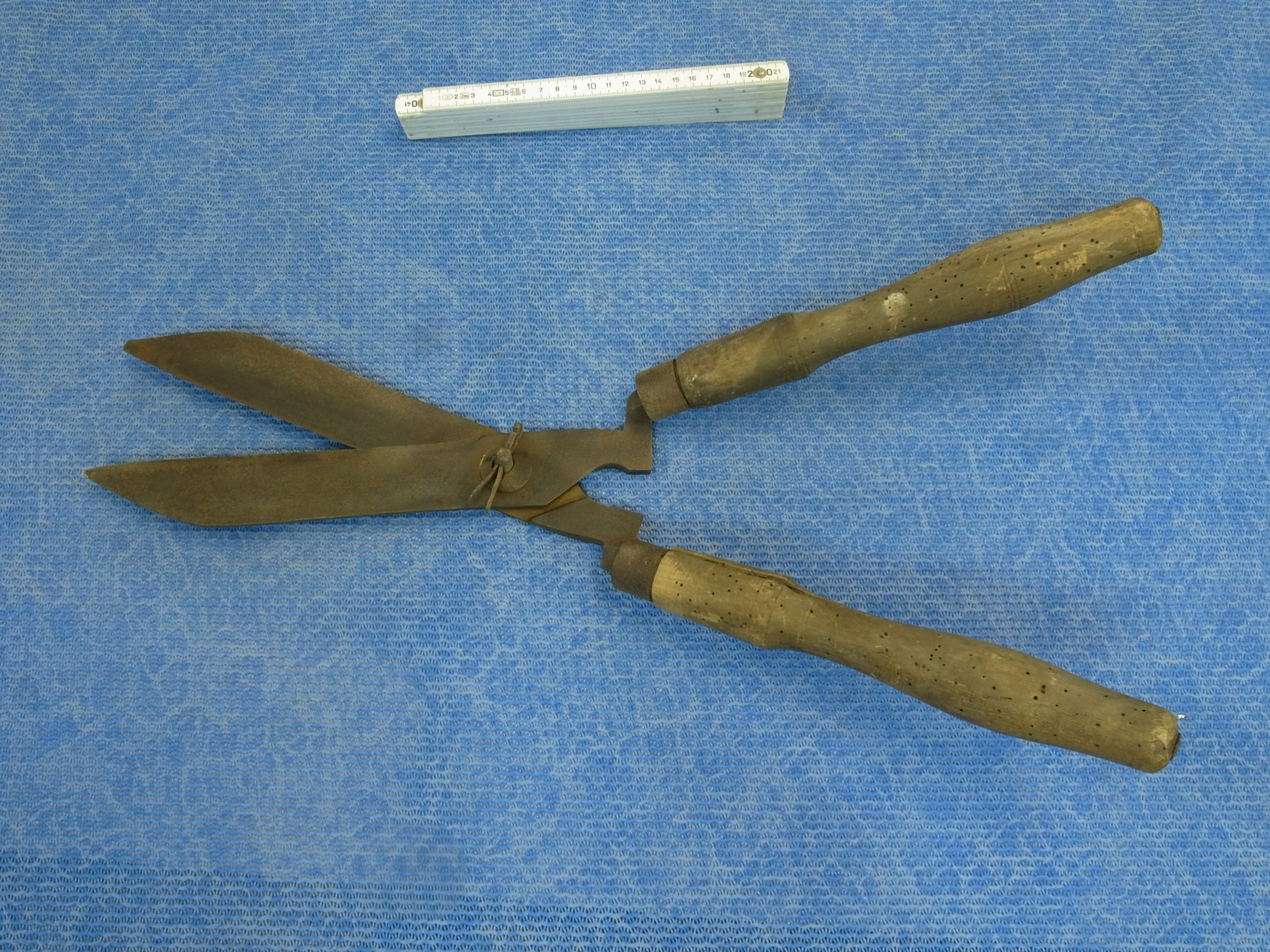 Manual hedge trimmer, forged, ca. 1900